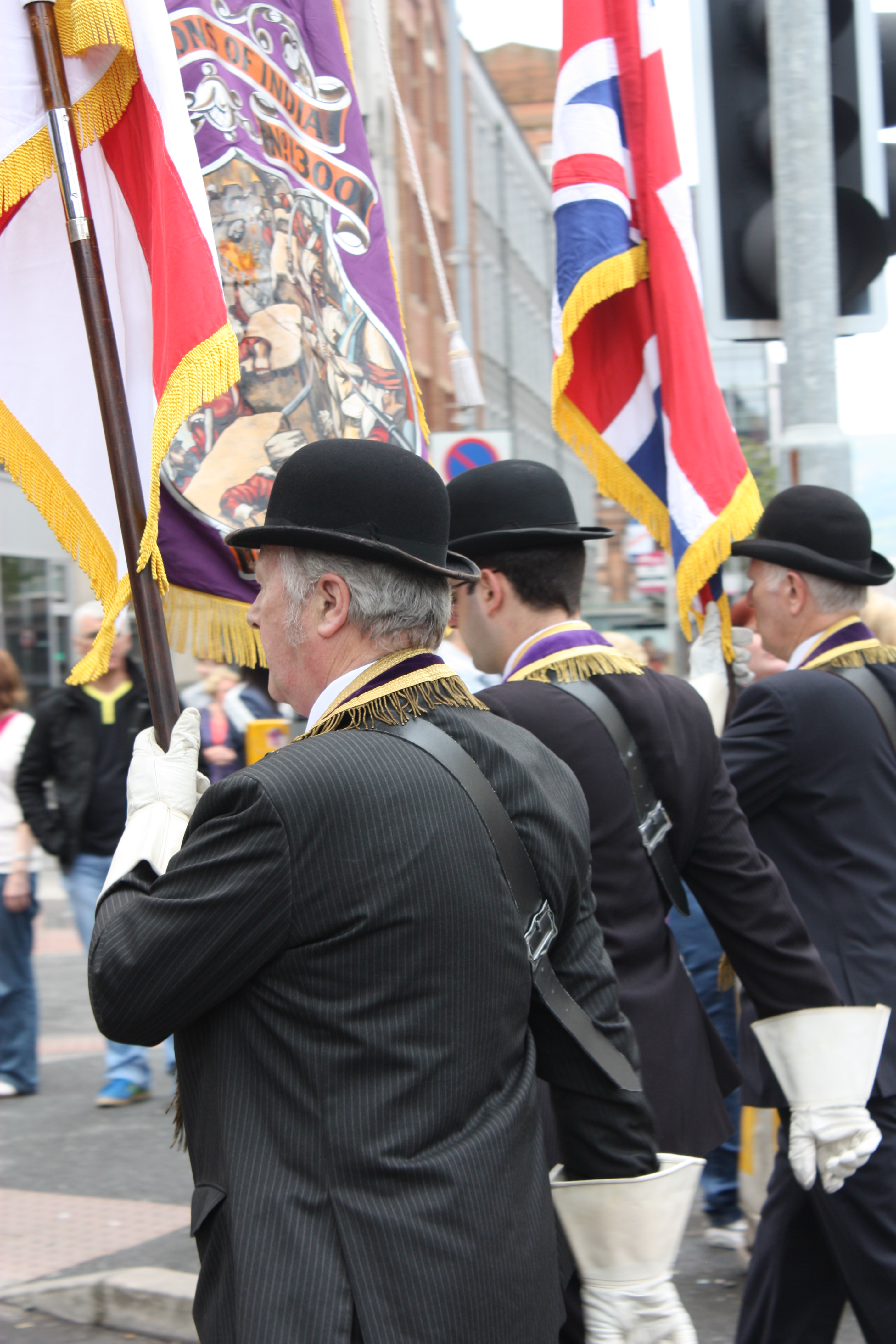 12 July Orange Parades, crossing Donegal Square South, Belfast, Northern Ireland, July 2011